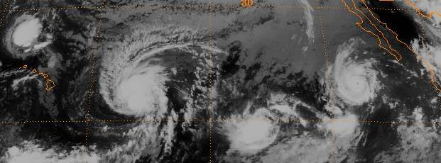 The remnants of Gilma (top-left), Hurricane Fabio (center-left), and Hurricane Hector (top-right), on 1988-08-03